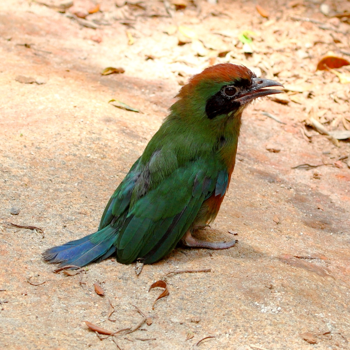 Rufous-capped Motmot young at Campos do Jordão - SP - Brazil